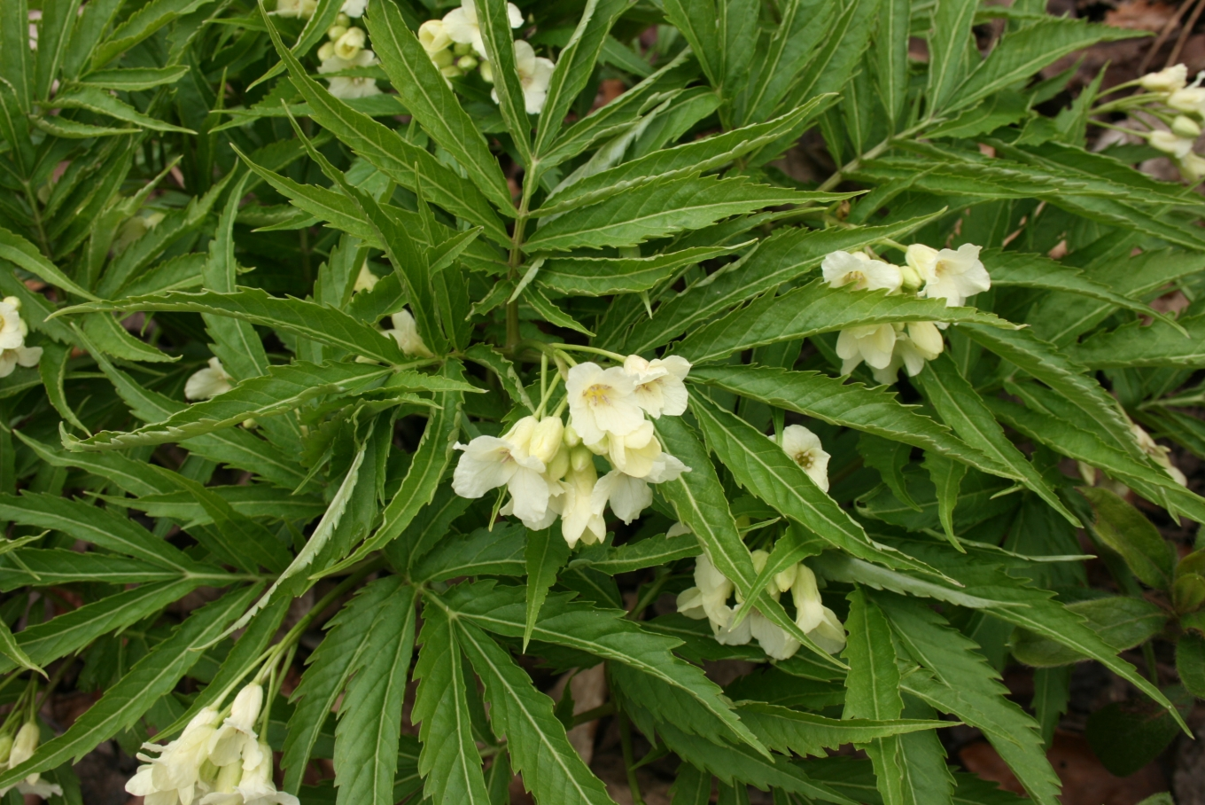 Cardamine enneaphyllos: Flowers (Århus Botanical Garden)